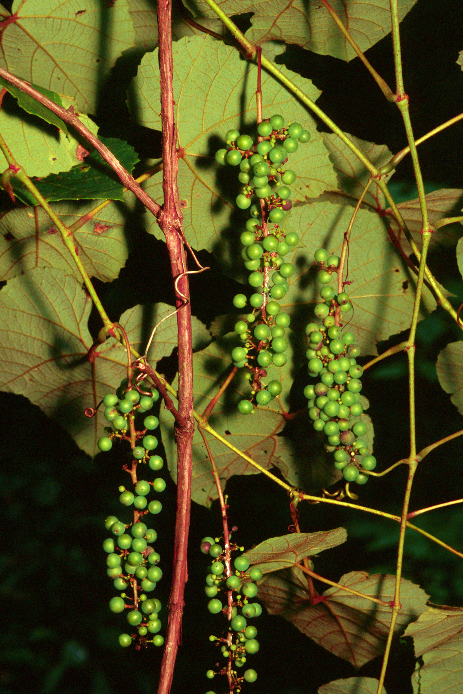 summer grape - Vitis aestivalis Michx. - Fruit(s) - June. Photo from Forest Plants of the Southeast and Their Wildlife Uses by J.H. Miller and K.V. Miller, published by The University of Georgia Press in cooperation with the Southern Weed Science Society. United States